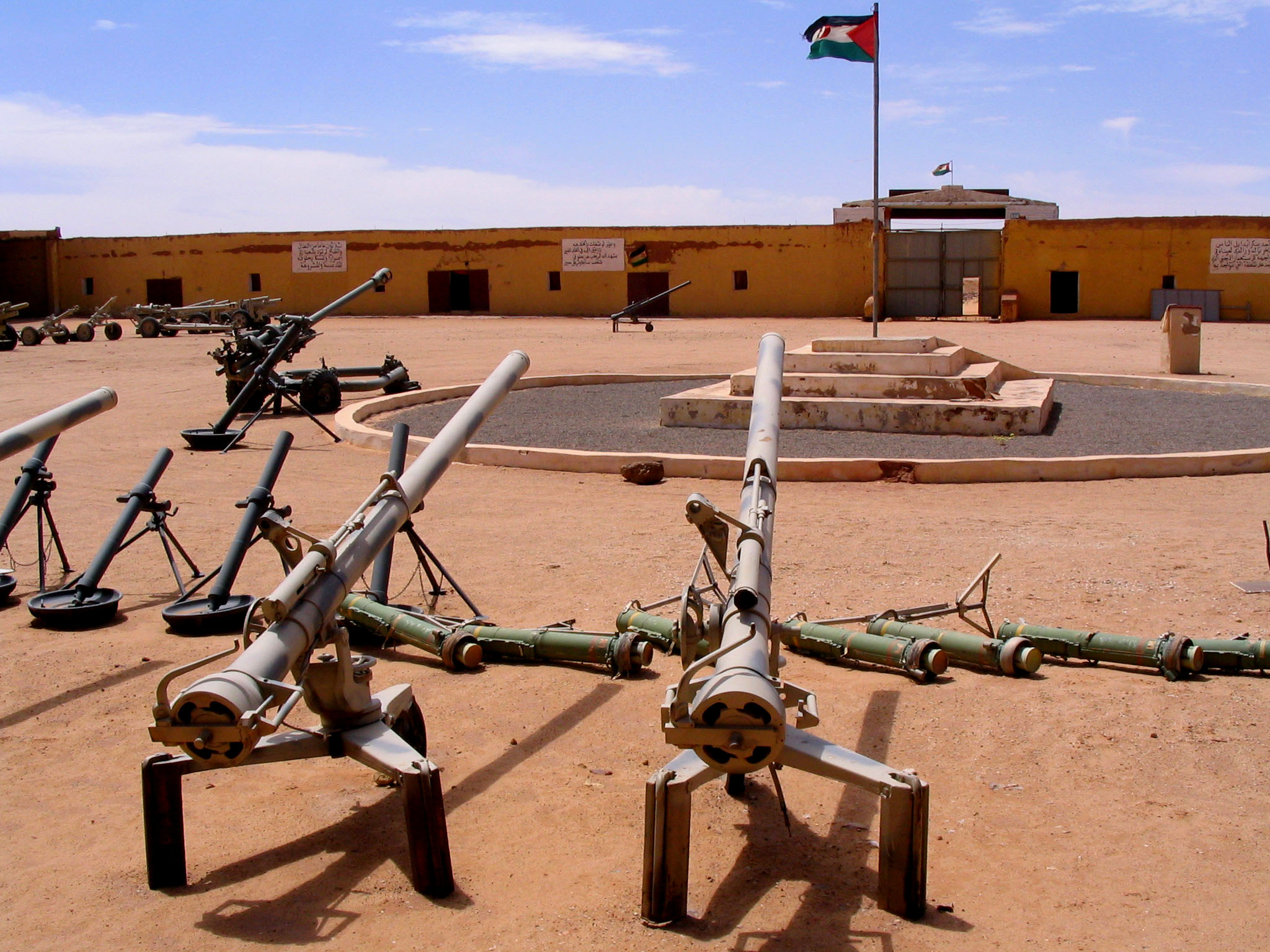 The Museum of the People's Liberation Army (Rabouni camp, 20 km south of Tindouf, Algeria), set up by Sahrawi Arab Democratic Republic (SADR) government (Polisario Front)(*), show the warfare seized to the Moroccan army during the wartime (1976-1991). This exhibit also shows some documents on the first actions carried out by the Polisario Front since 1973 initially against Spanish colonization and, later, against Moroccan army. (*) The SADR, proclaimed on February 27, 1976 by the Polisario Front, is not recognized internationally.